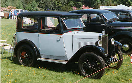 1928 Morris Minor Saloon photographed by Malcolm Asquith and released into the public domain.